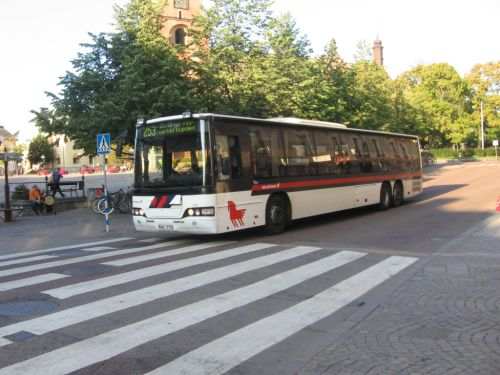 Bus in Falun, Sweden. Dalatrafik operator.